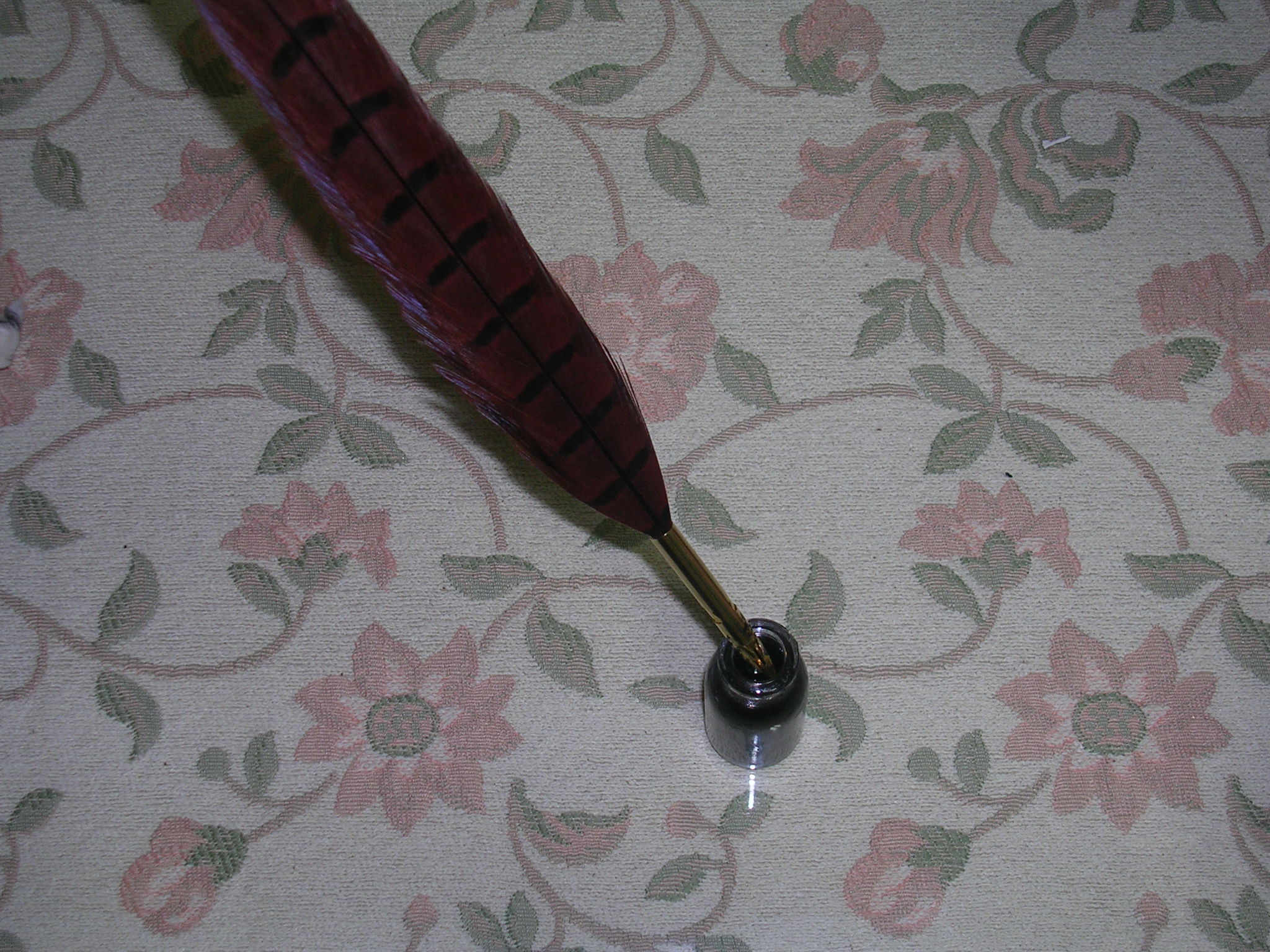 A brown quill and bottle of Italian ink on a desk.